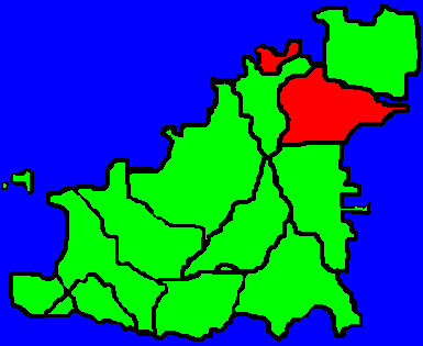 This map shows the position of [Forest,Guernsey] in relation to the rest of Guernsey.